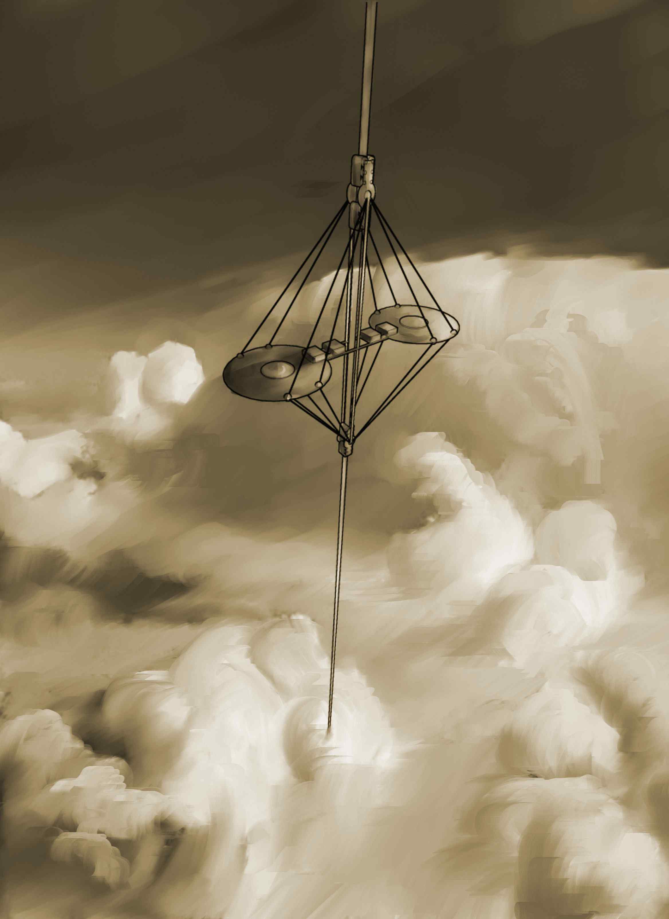 An artist's impression of a space elevator climbing through the clouds.